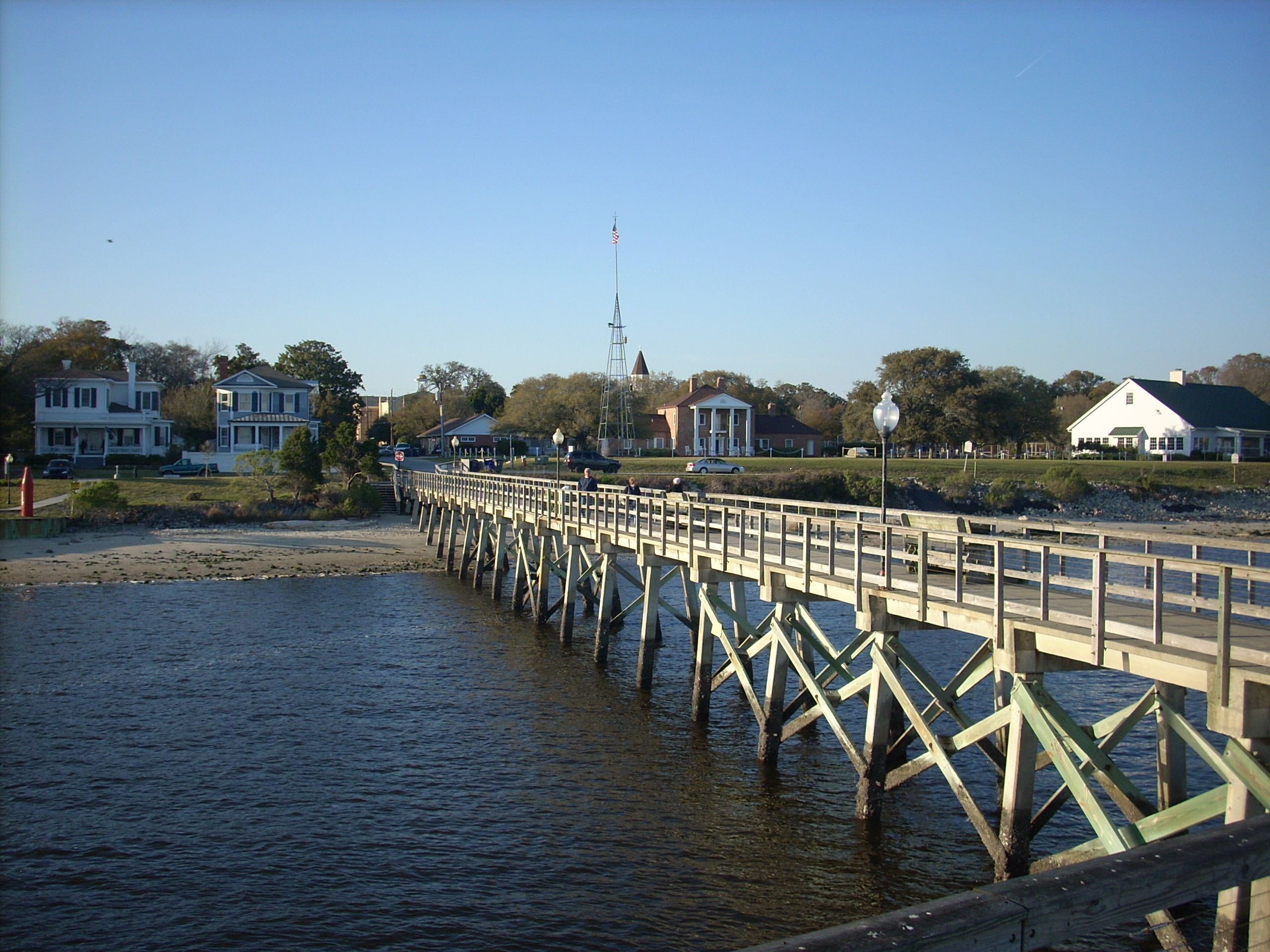 A view of Southport from the pier at Waterfront Park